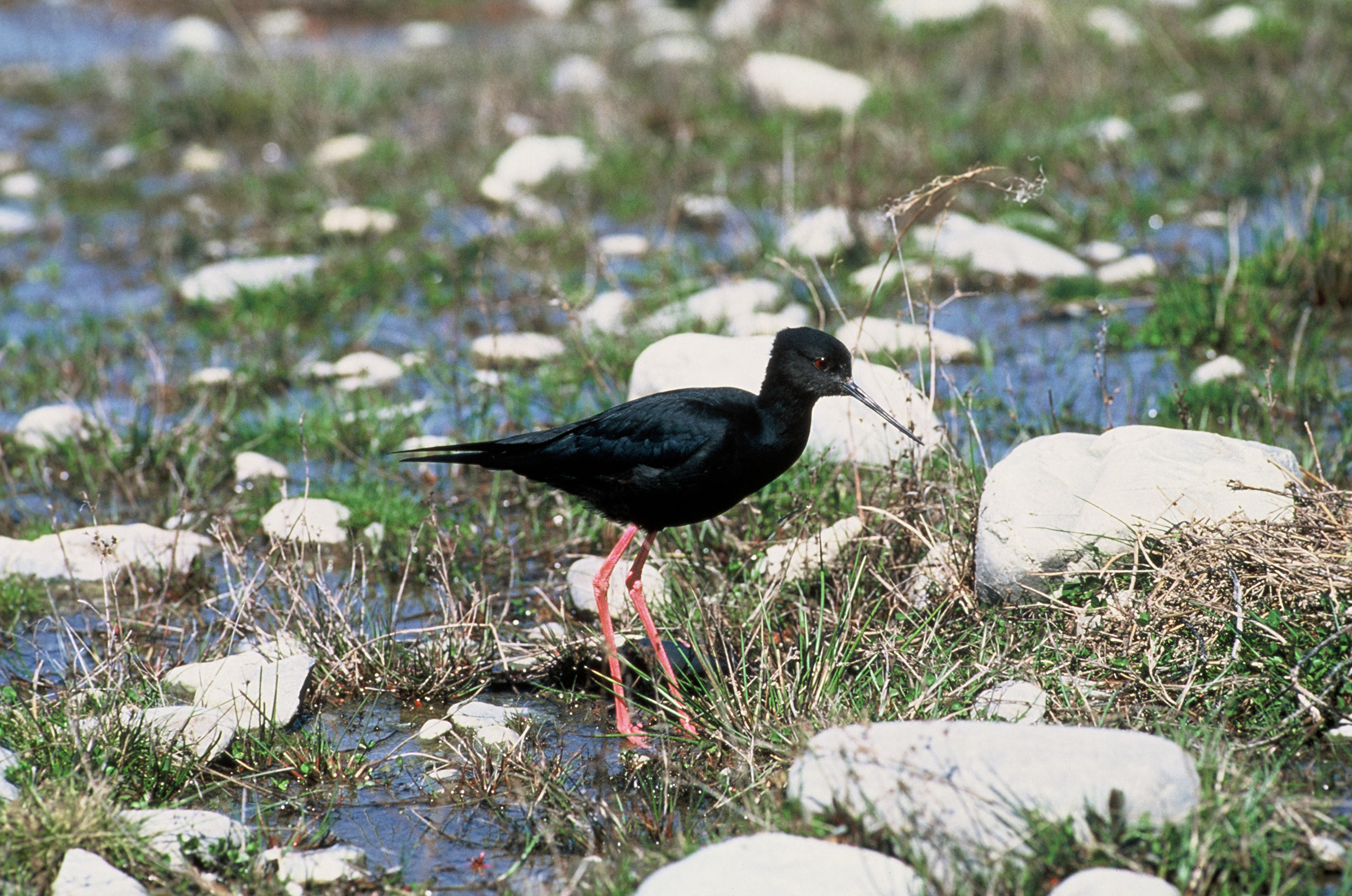 Black stilt Himantopus novaezelandiae near Twizel, New Zealand